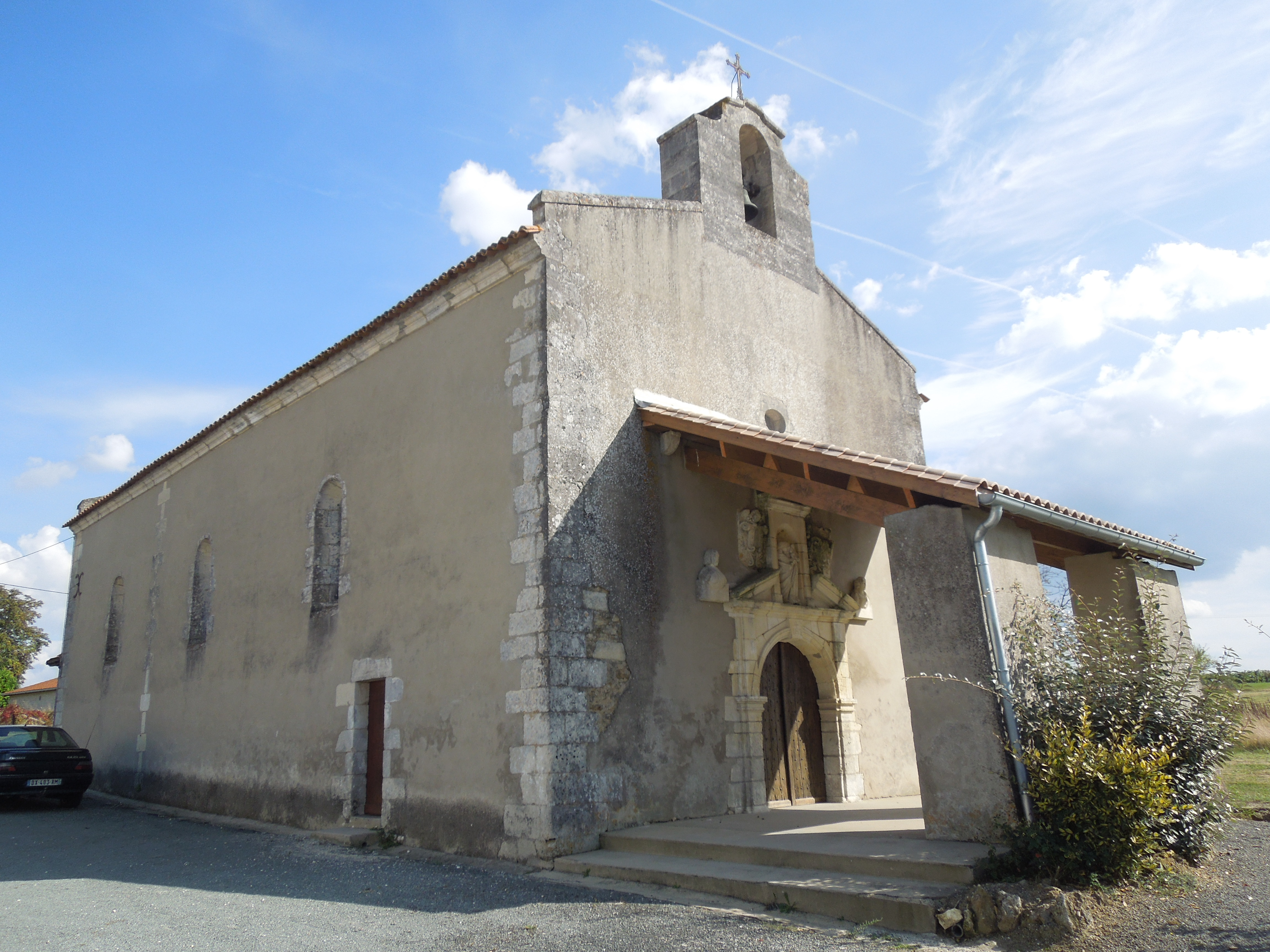 Chamouillac, church, view from northwest